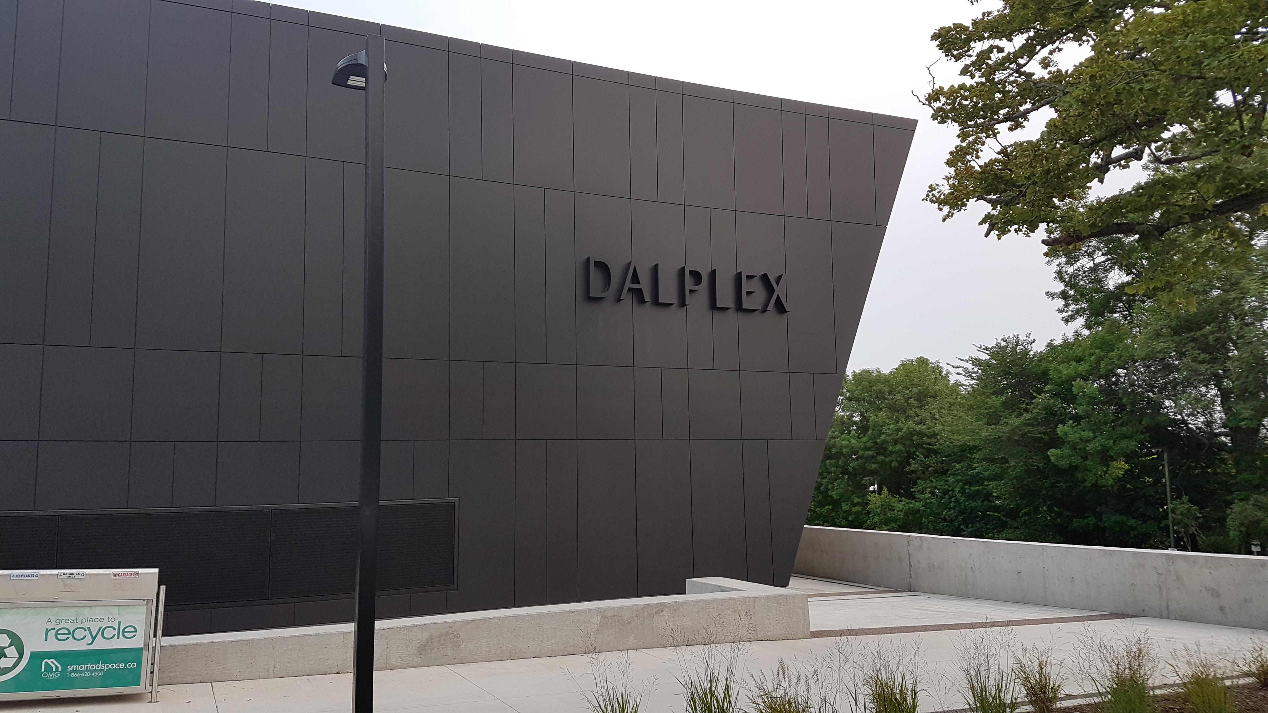 Dalplex - Dalhousie University sports, recreation and fitness centre. Located at 6260 South Street, Halifax, Nova Scotia, Canada. Photo taken 24 August 2018, three months after the 25 May opening of the $23-million facility . .